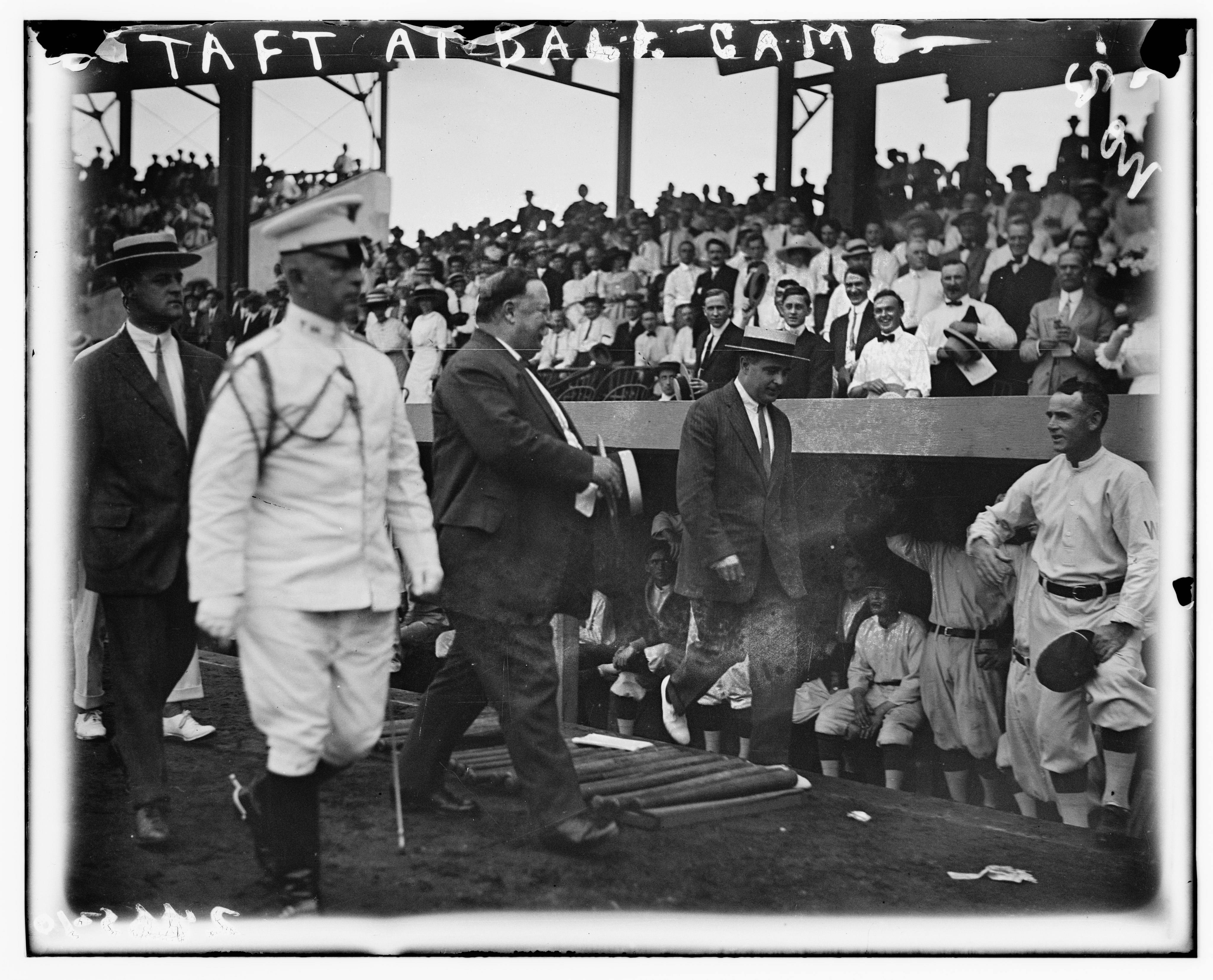 Title: Pres. Taft at Wash-Chicago baseball game 2/4/30 Abstract/medium: 1 negative : glass ; 5 x 7 in. or smaller.